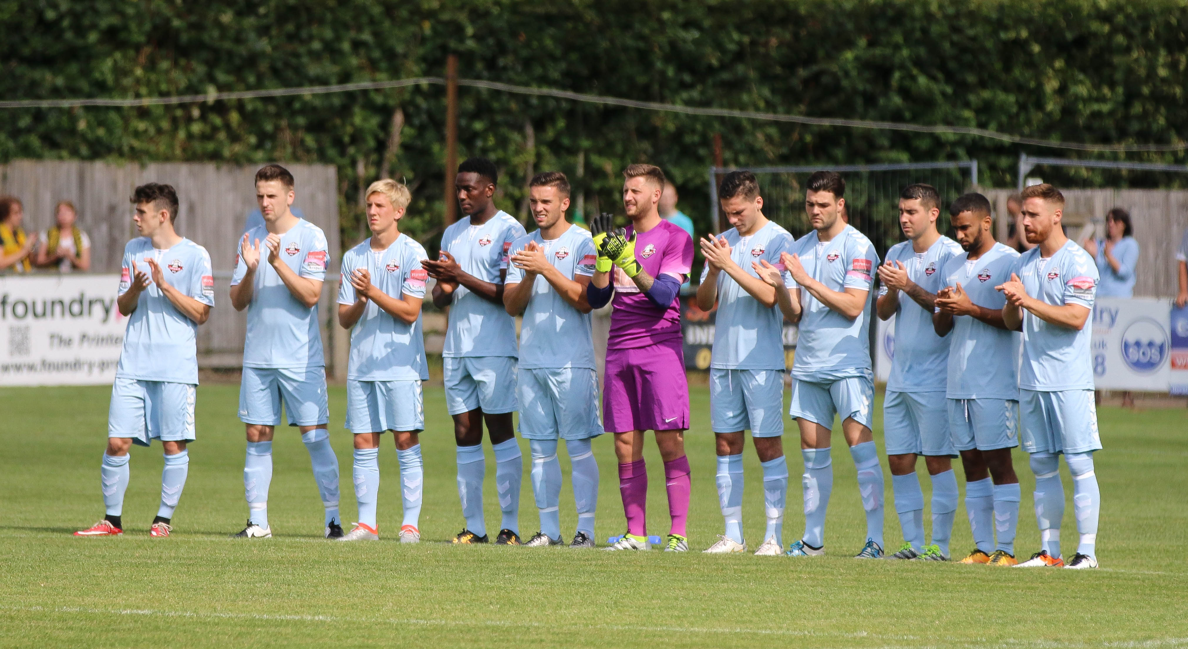 The team of Lewes F.C. on 29 August 2016 before the match against Horsham F.C..